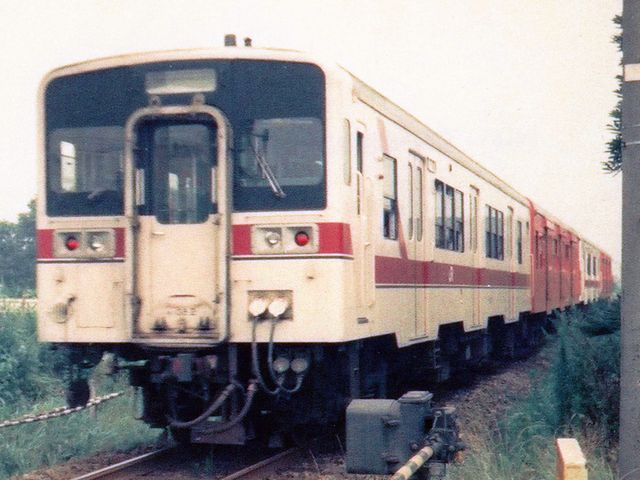 East Japan Railway Company, DMU Type 38 "Hachiko Line" 1988年頃撮影 At between Kitafujioka Sta. and Gumma-Fujioka Sta. Photo by Cassiopeia_sweet.